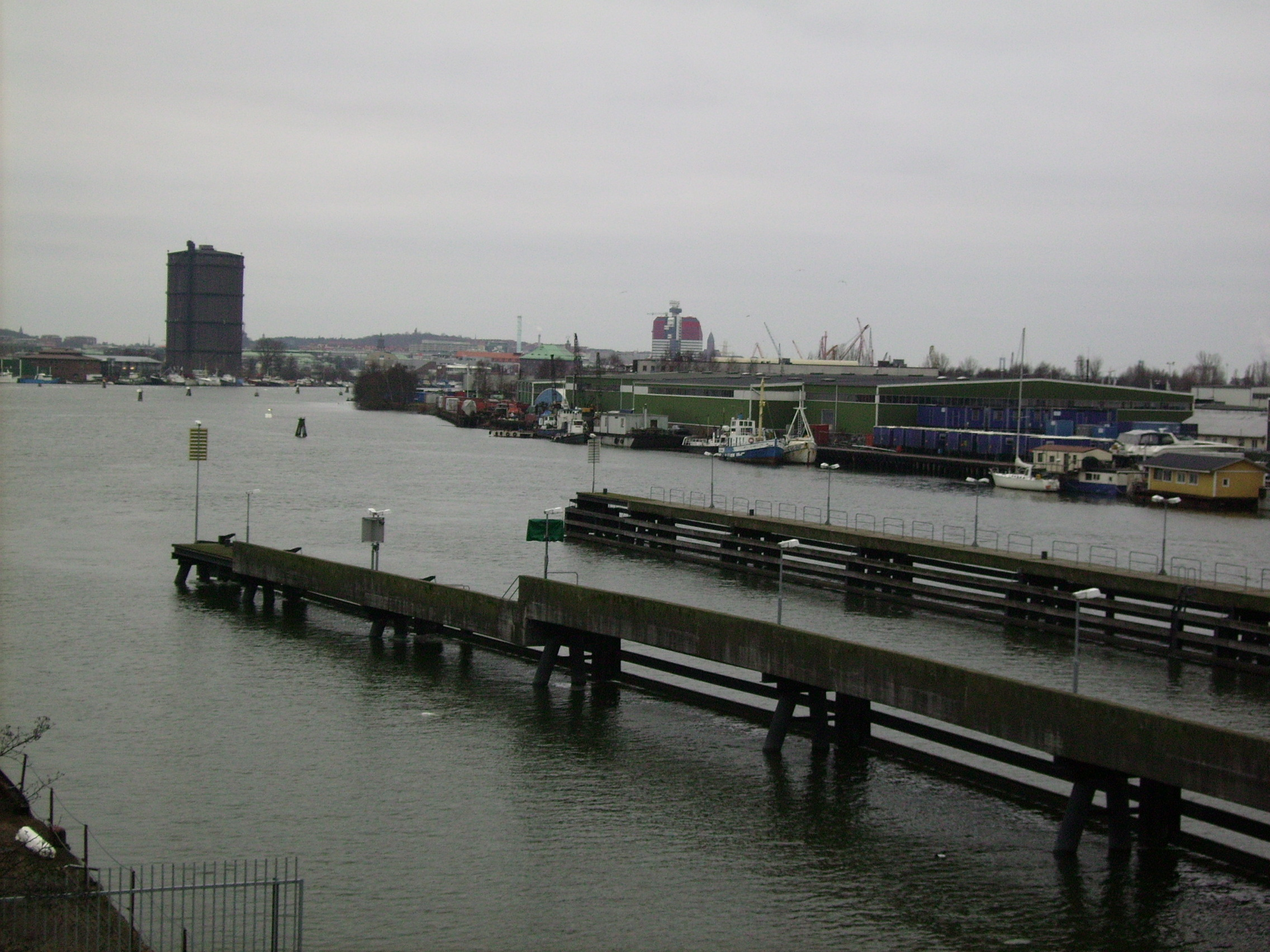 Göta Älv at Gothenburg.